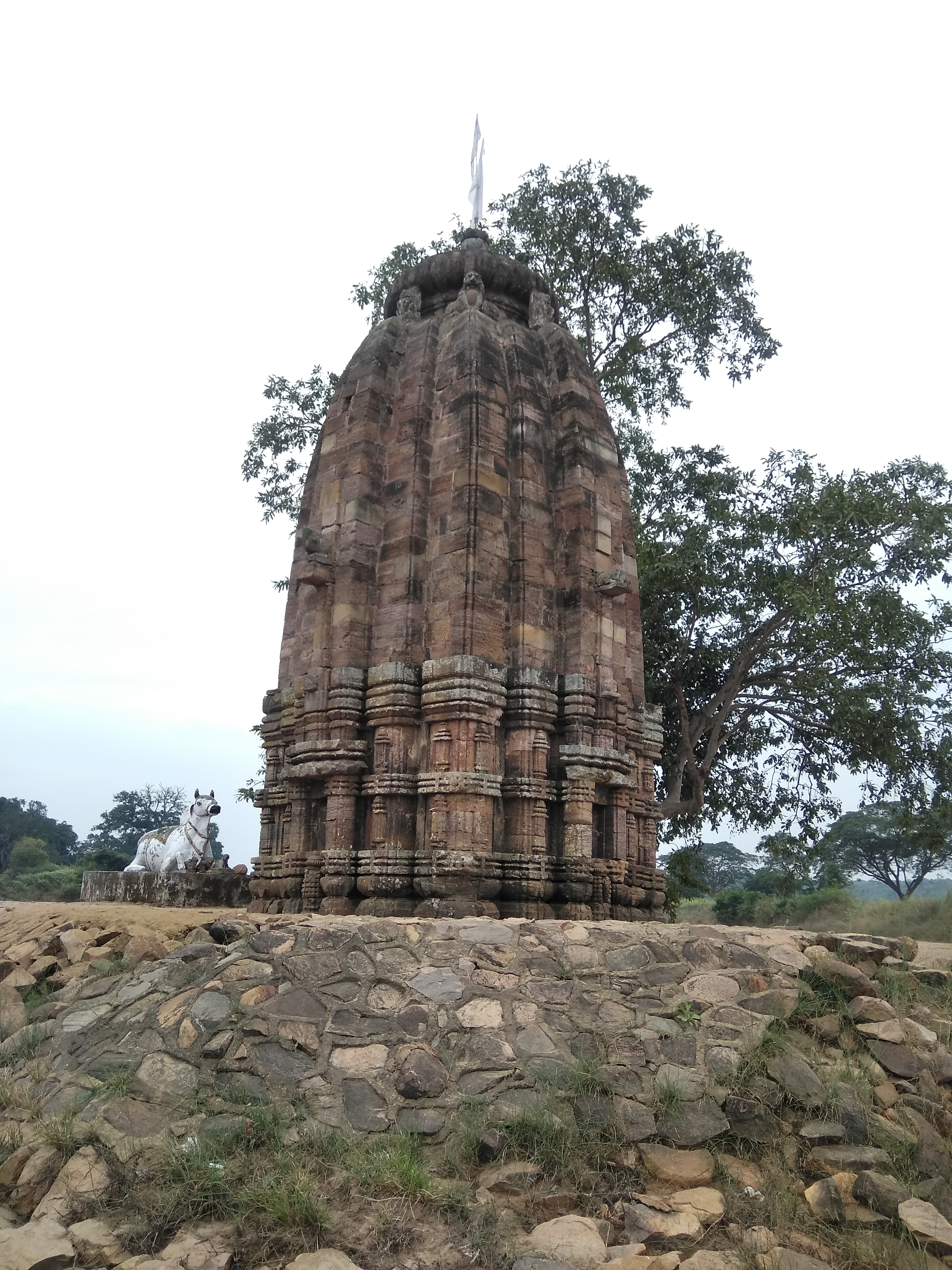 Kapileswar Mahadev Temple